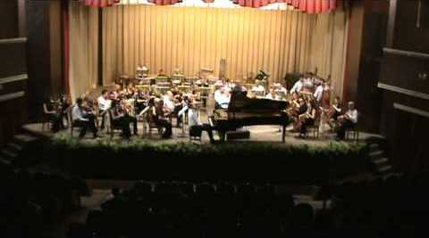 Mark L. Smith in 2009. The Piano Concerto No. 3 in D minor, Op. 30, composed in 1909 by Sergei Rachmaninoff has the reputation of being one of the most technically challenging piano concertos in the standard classical repertoire.